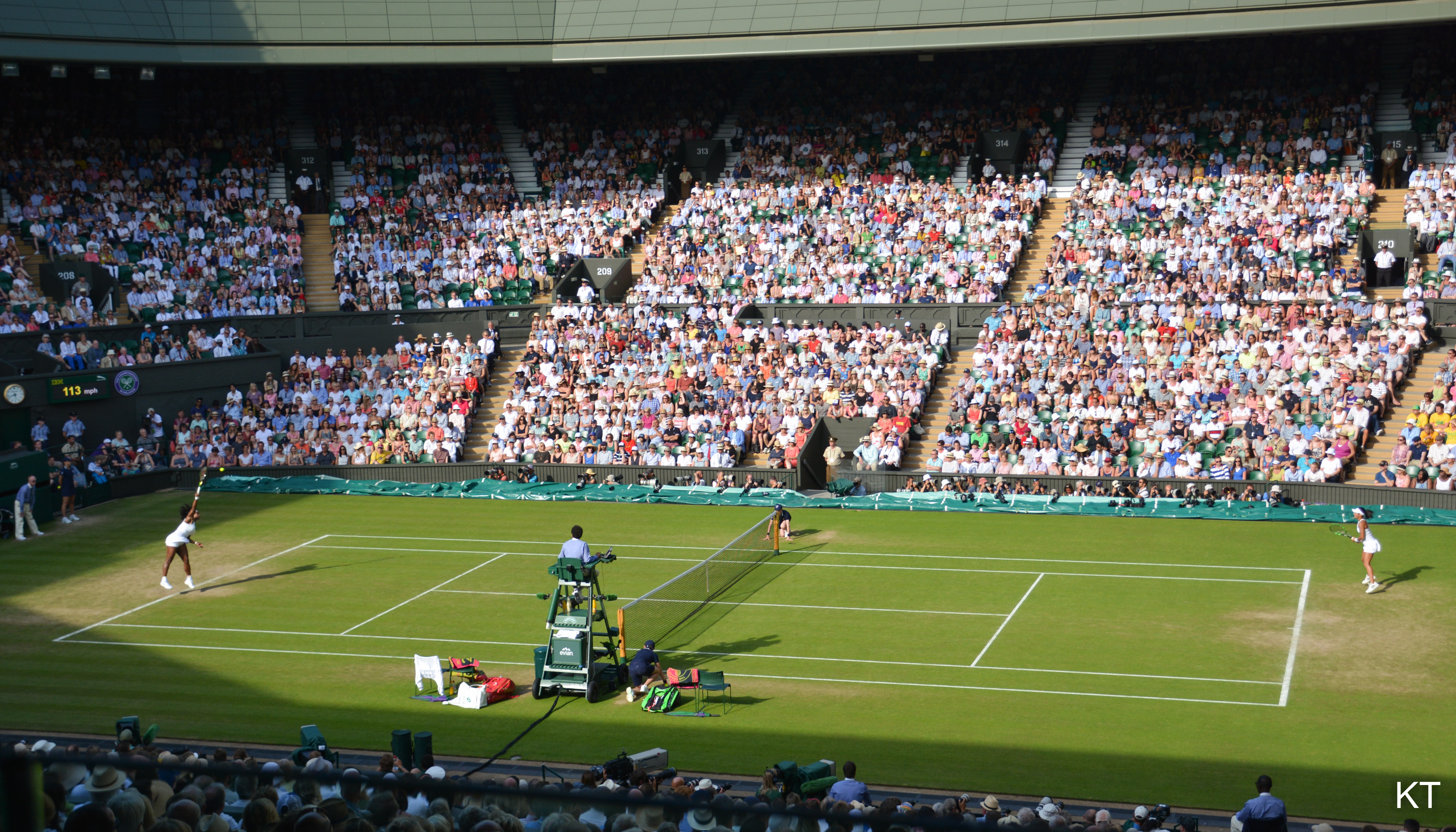 Serena Williams and Heather Watson during their 3rd round match at Wimbledon 2015.